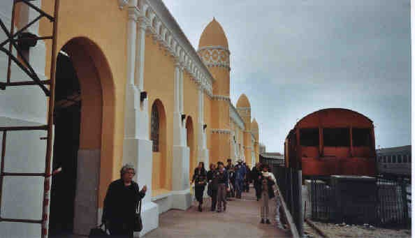 Railway Station Barreiro with passengers